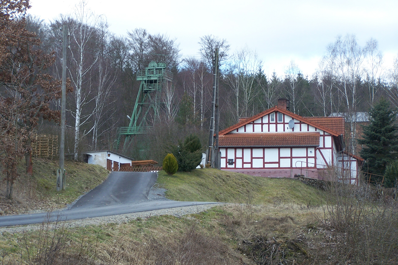 The winding tower in Menzengraben.